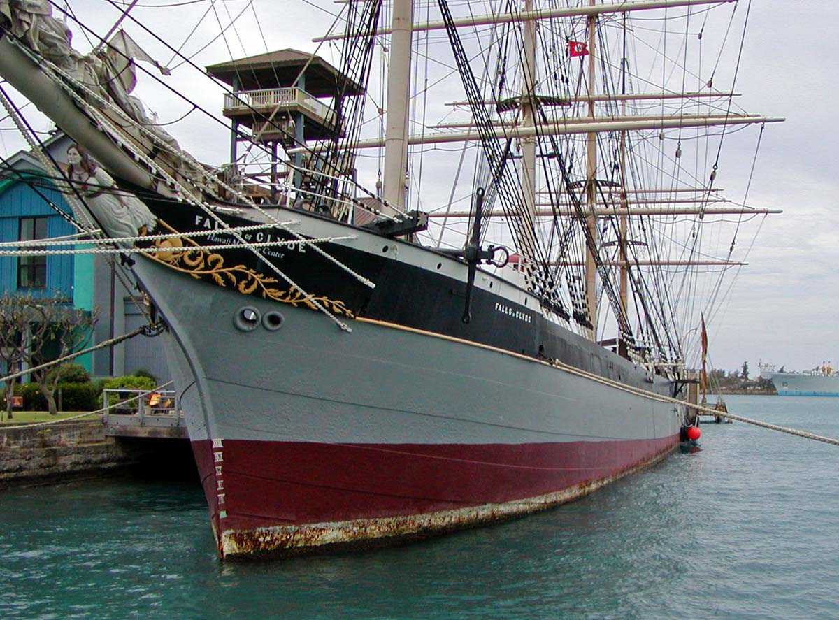 Photo of Falls of Clyde from forward, Honolulu